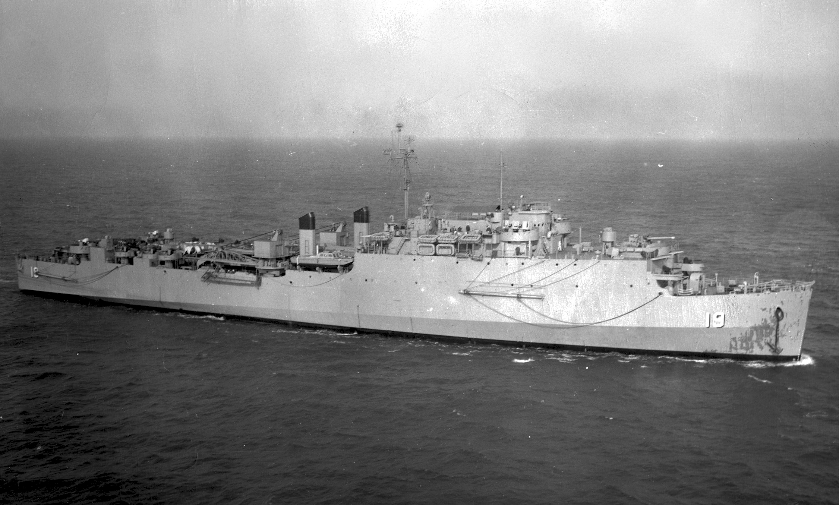 A U.S. Navy dock landing ship USS Comstock (LSD-19) underway while overseeing minesweeping operations that preceeded a Royal Marine assault in the Chinampo, Korea, area on 20 May 1951.